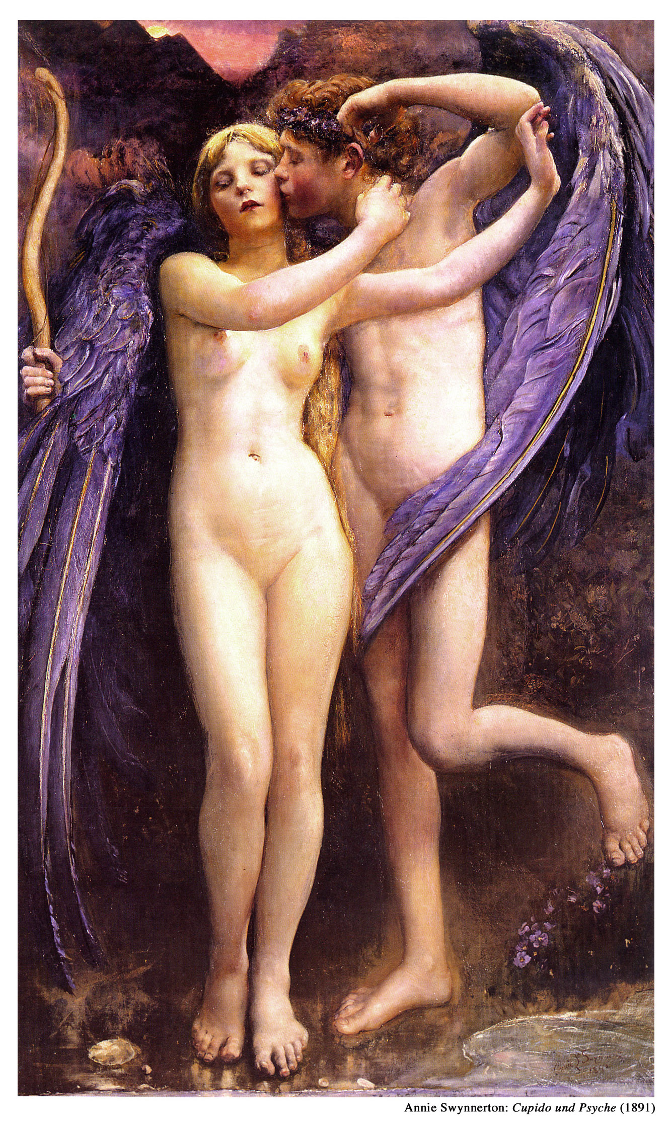 Annie Swynnerton: Cupid and Psyche Swynnerton. 1891. Oil painting.